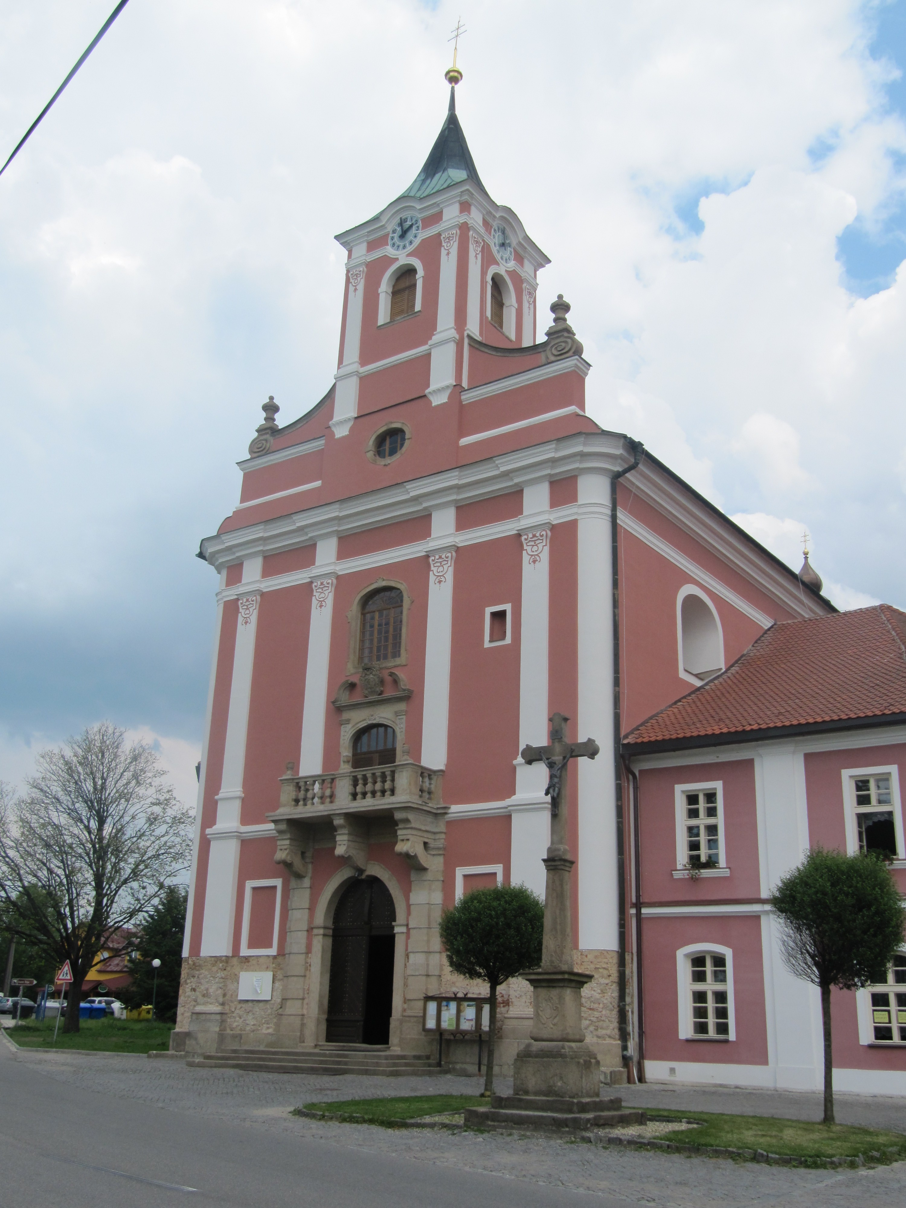 Zlín, part Štípa, Czech Republic. Pilgrimage Church of the Nativity of the Virgin Mary.